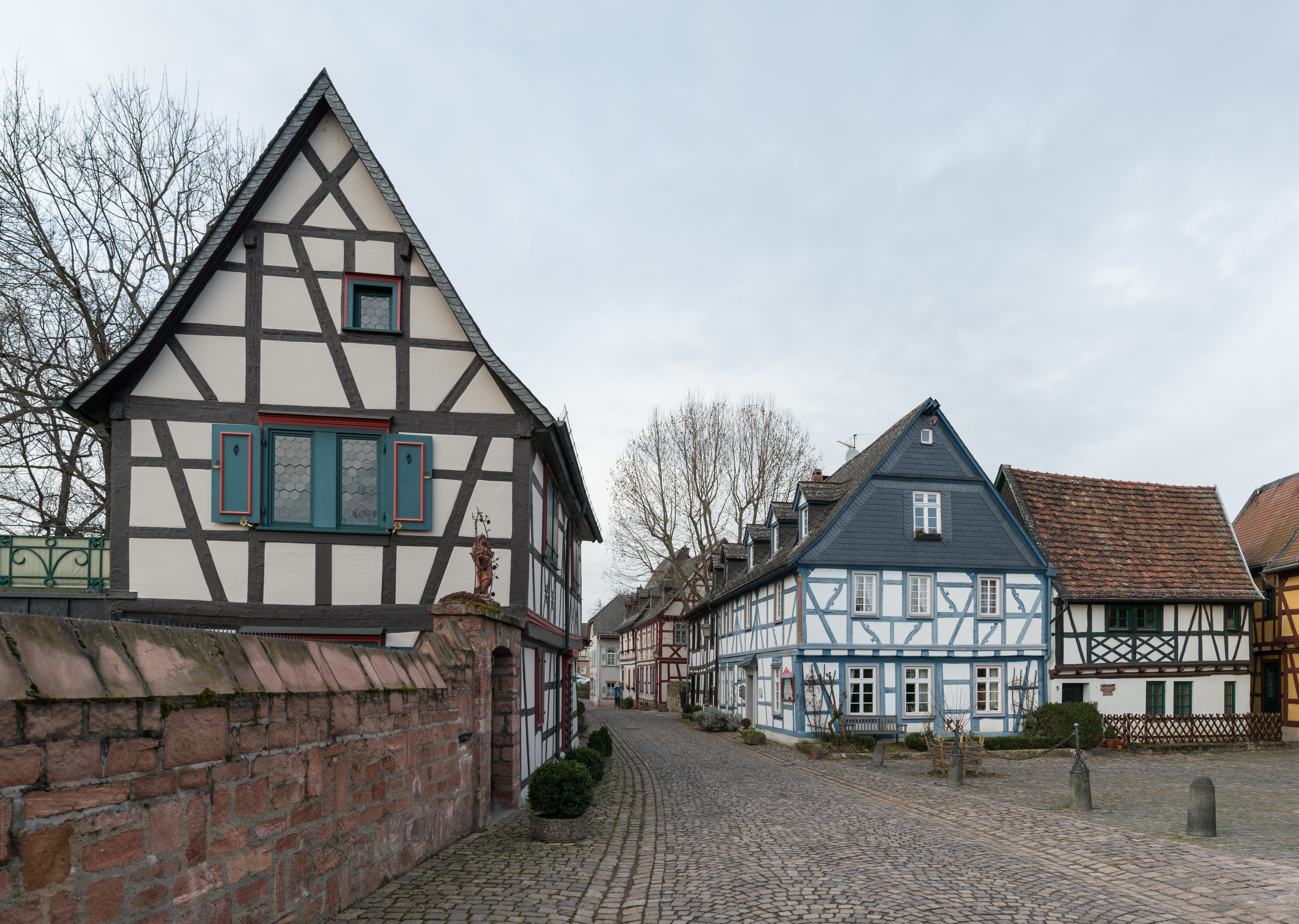 A view of the Burgstraße in Eltville